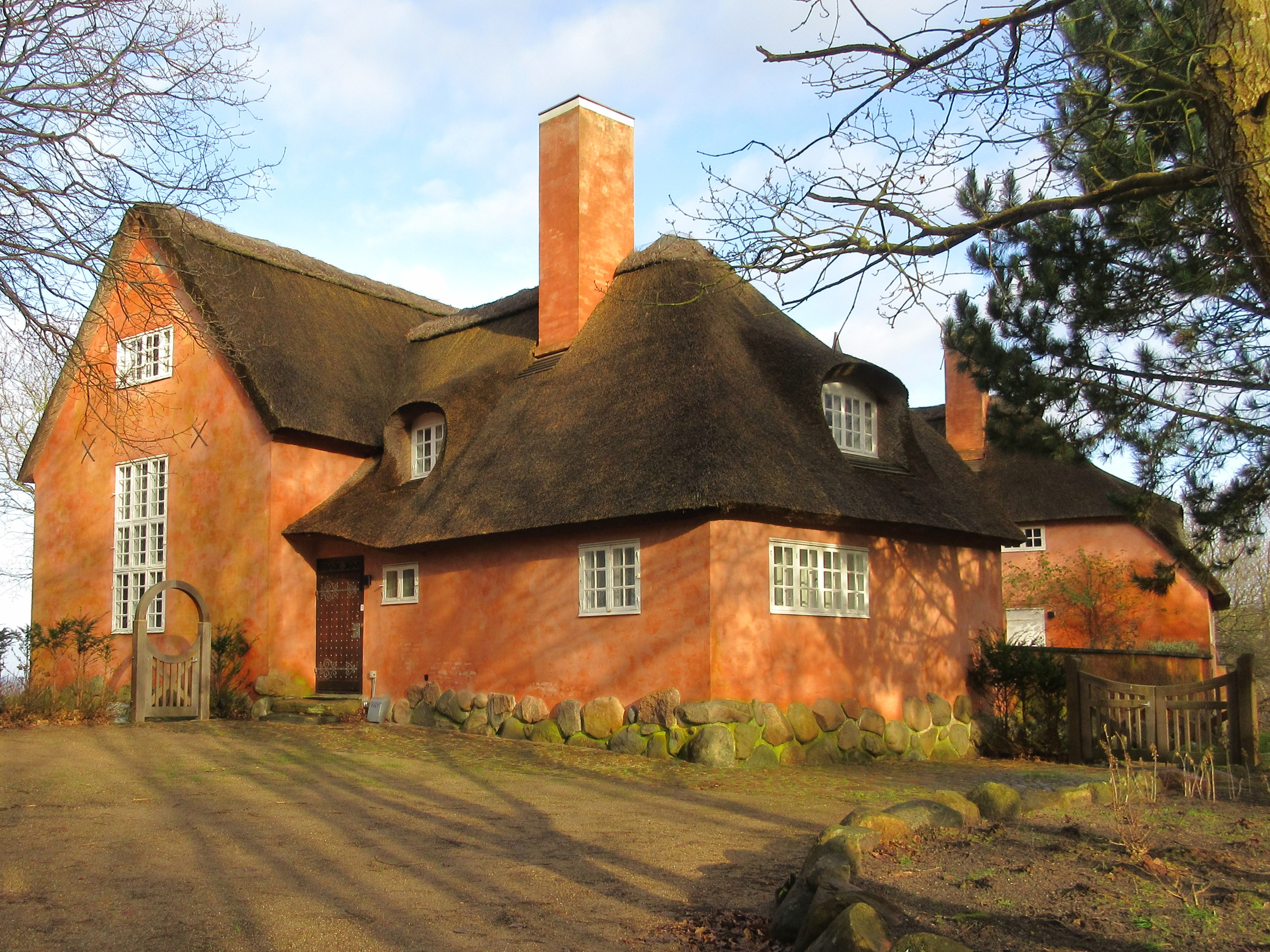 Rågegården